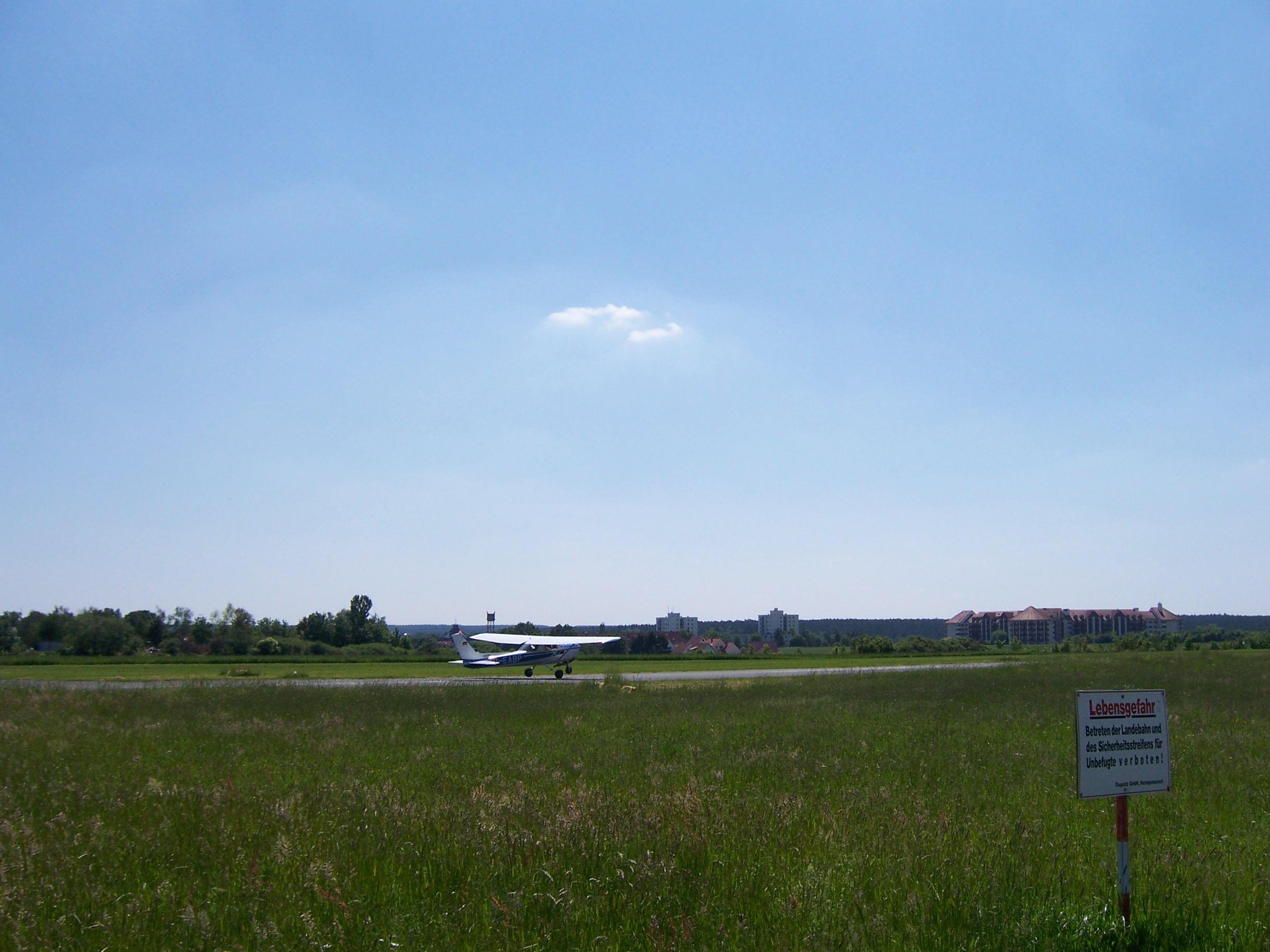 Airport Herzogenaurach (Germany) 19.05.07